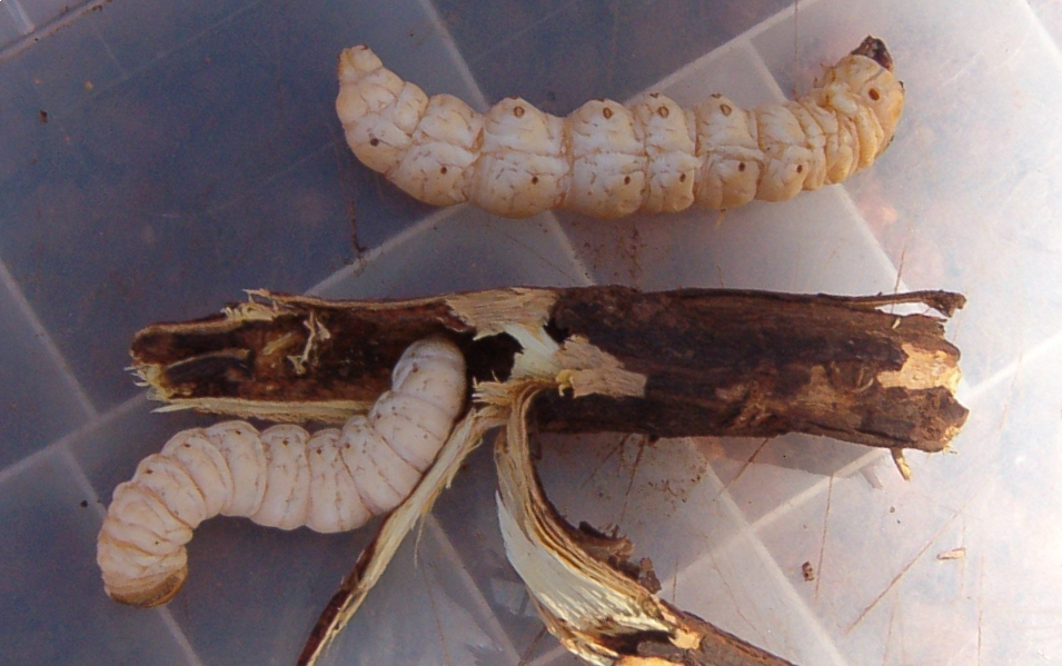 The witchetty grub, in the Australian outback